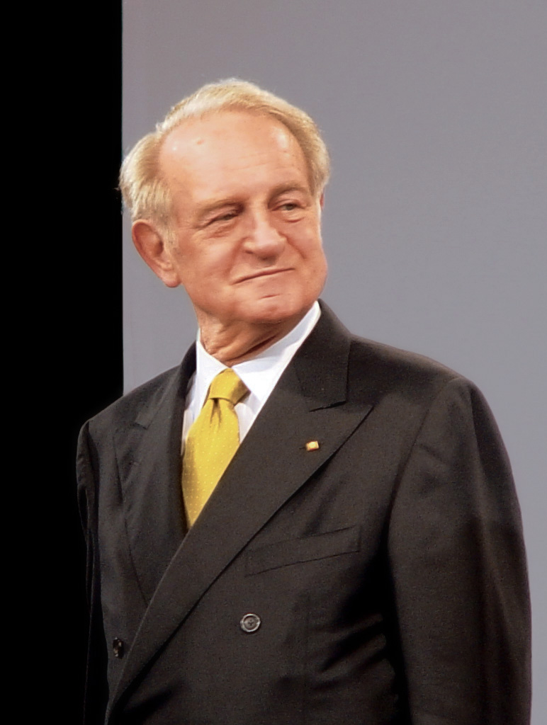 Johannes Rau, Germany's then Federal President, during the finale event of the debating competition "Jugend debattiert" in the main studio of the RBB ("Rundfunk Berlin-Brandenburg") in Berlin on May 16, 2004